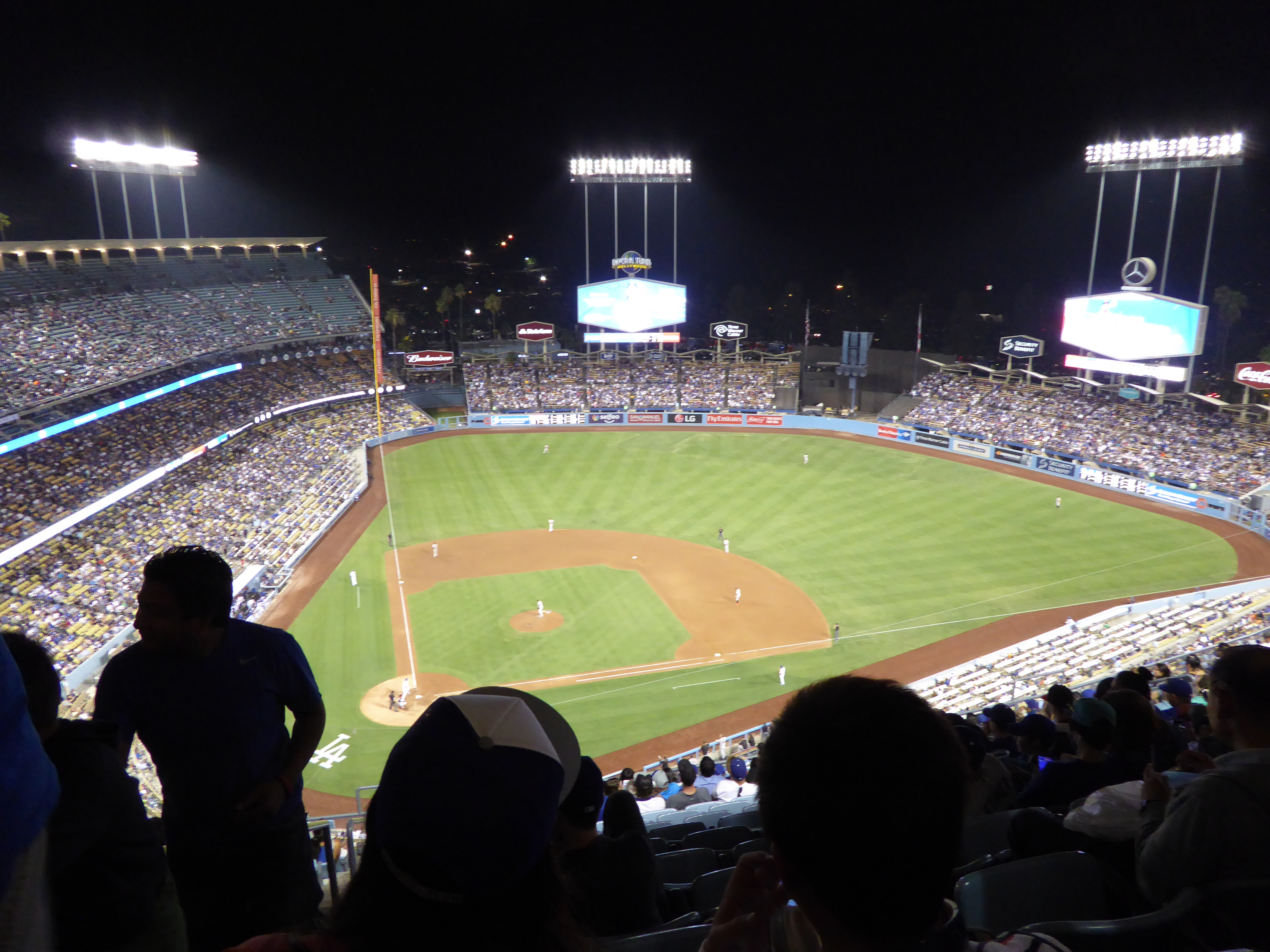 LA Dodgers Stadium